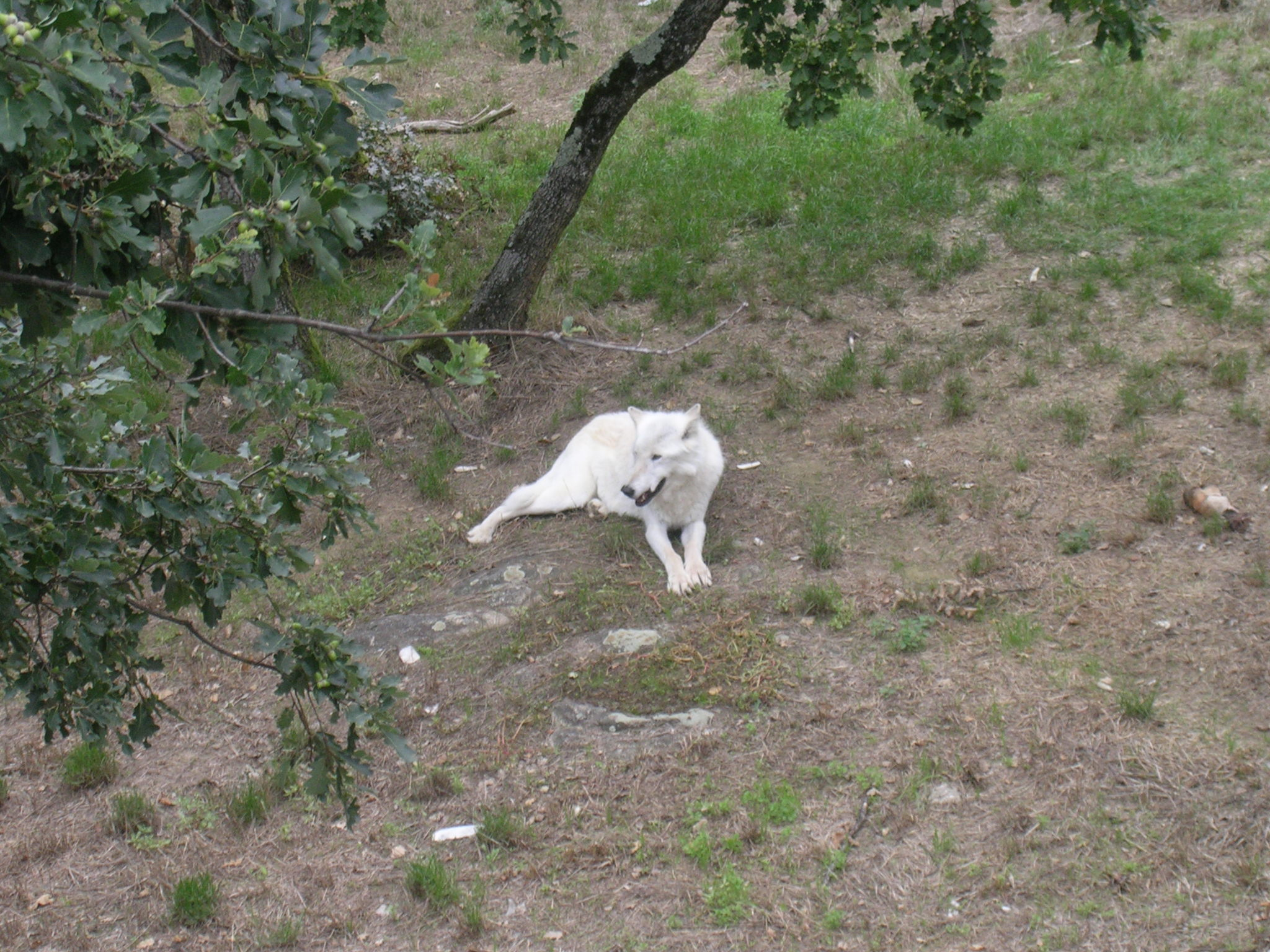 Photo du loup blanc du Safari de Peaugres Picture of white wolf from Safari de Peaugres